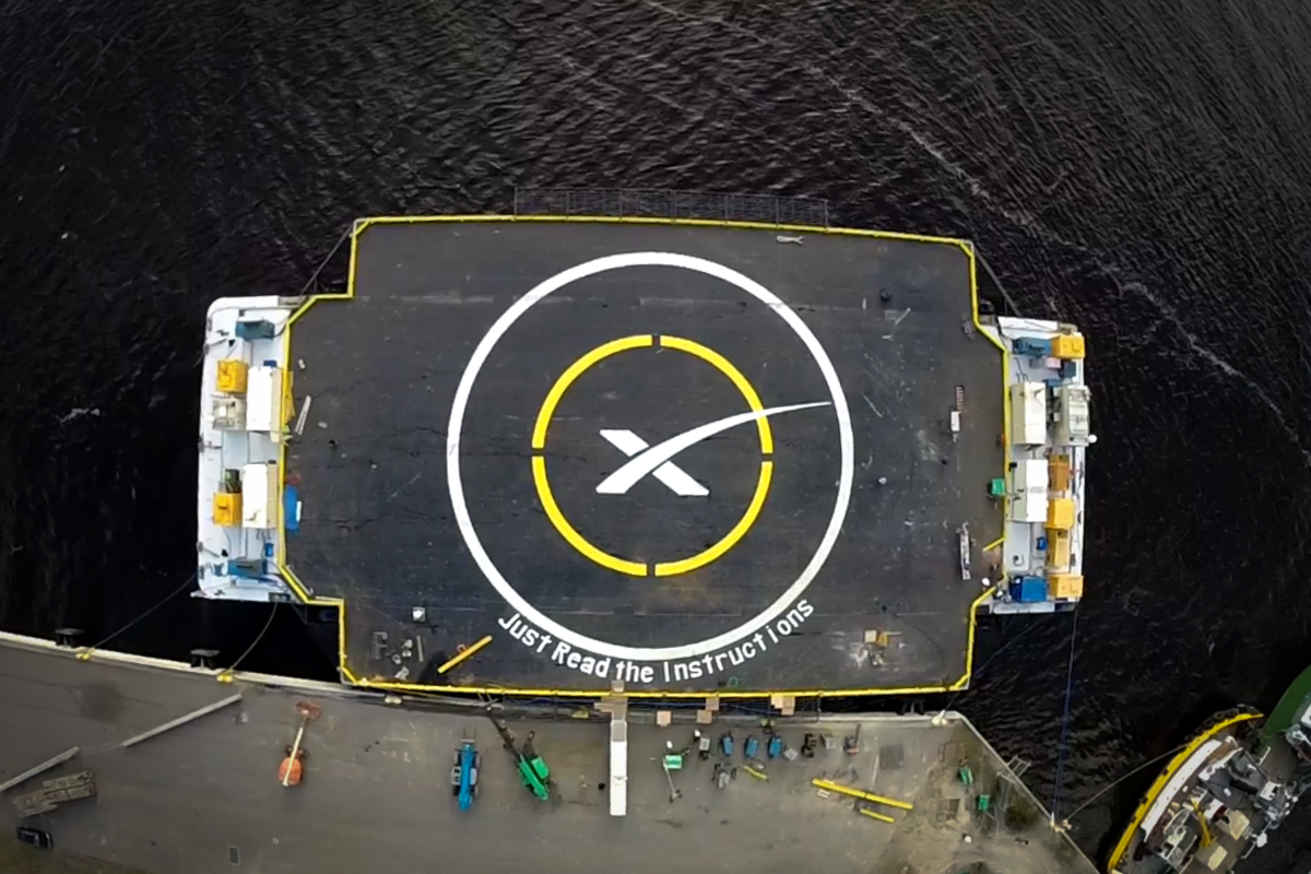 SpaceX autonomous spaceport drone ship, previously the barge Marmac 300, now nicknamed Just Read the Instructions. It is a floating landing platform used by SpaceX for landing attempts by the Falcon 9 rocket's first stage.